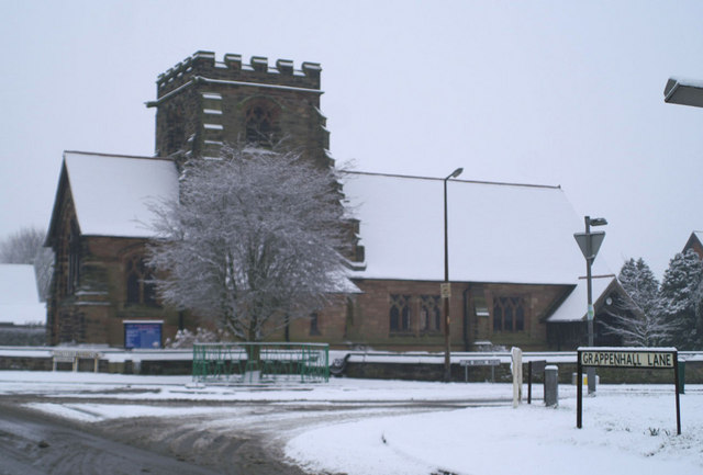 Photograph